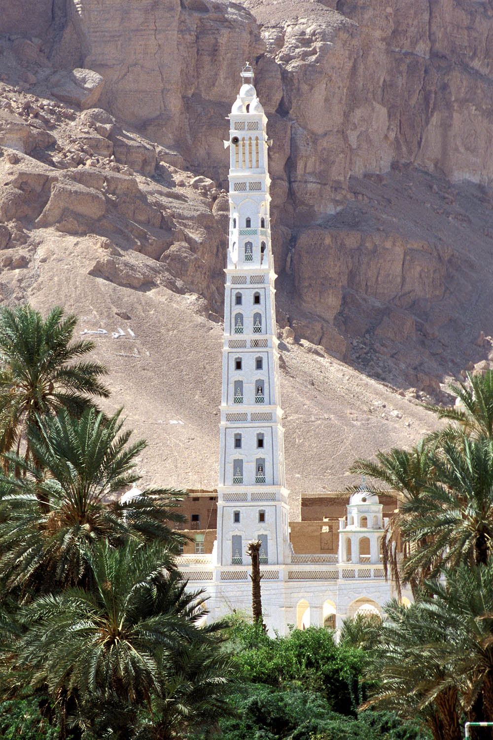 The minaret of the Al Mihdhar Mosque at Tarim, Yemen, is measured 53 metres (175 feet) high